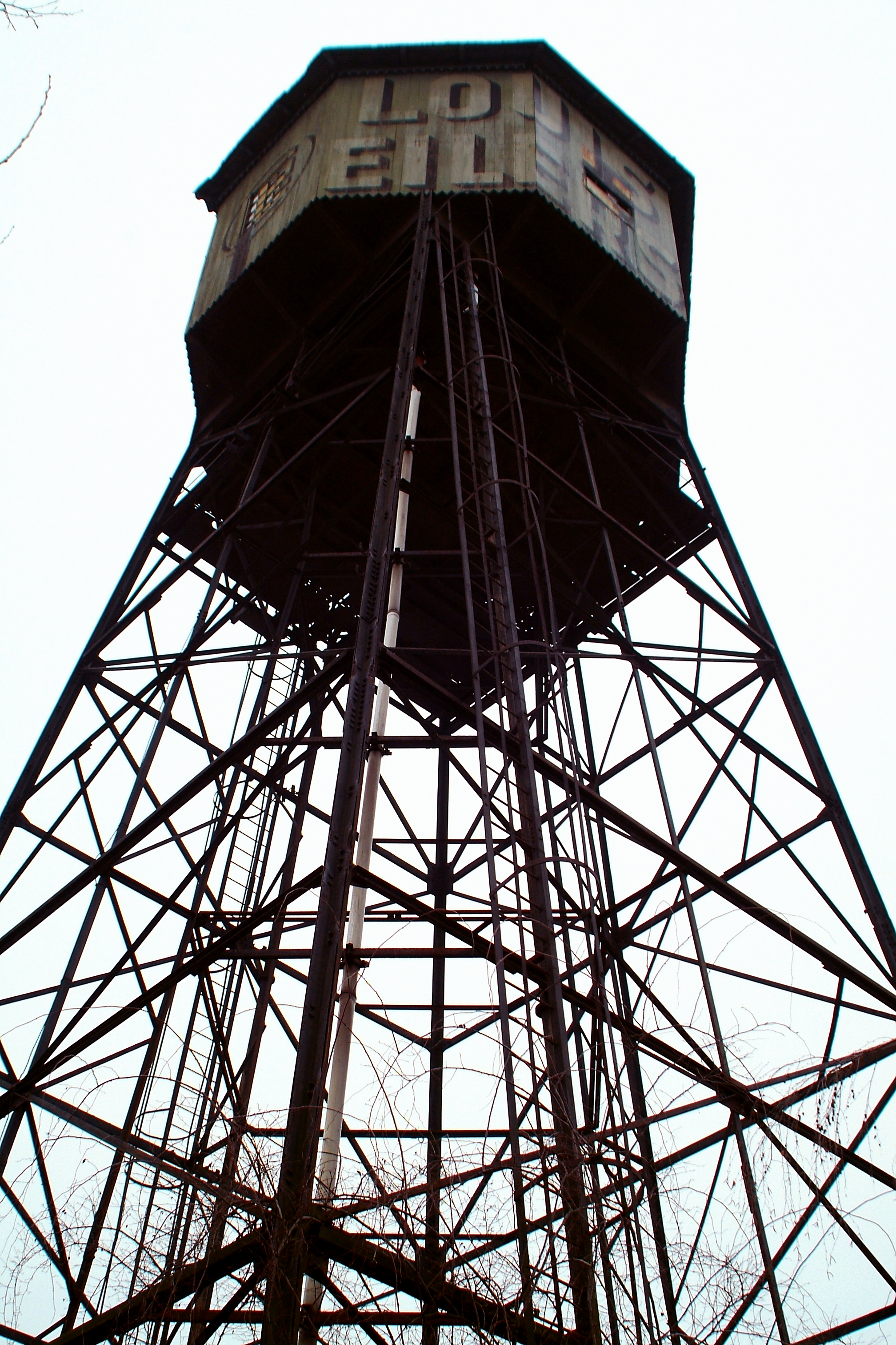 Thanks to all my friends and helpers, especially to the "Hausmeister"